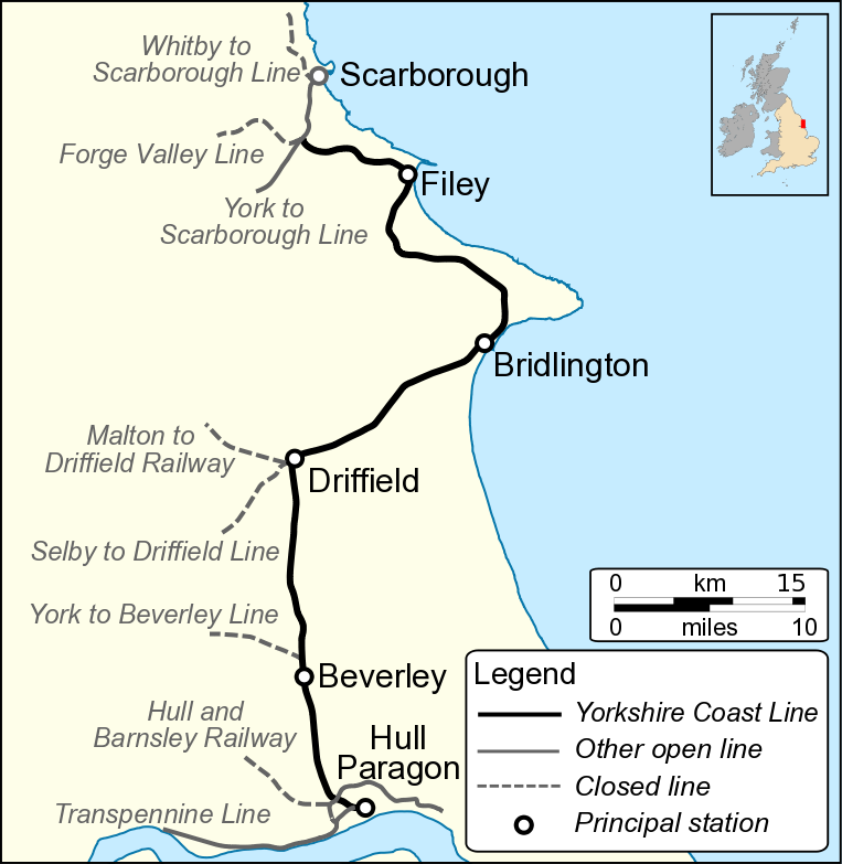 Map of the Yorkshire Coast Line. A railway line linking Scarborough to Hull in Yorkshire, England. Map data from Open Street Maps.